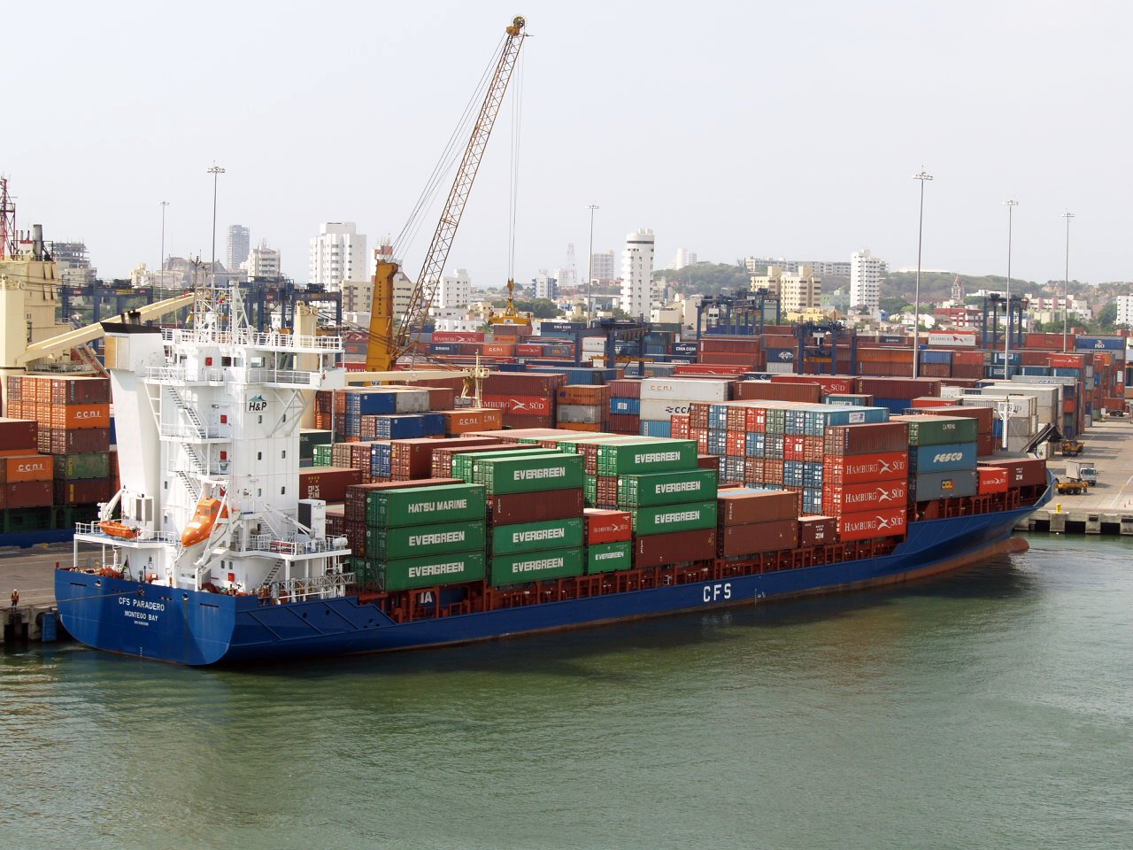 IMO number : 9368998 Name of ship : CFS PARADERO Call Sign : 6YRG6 Gross tonnage : 8246 Type of ship : Container Ship Year of build : 2007 Flag : Jamaica Status of ship : In Service